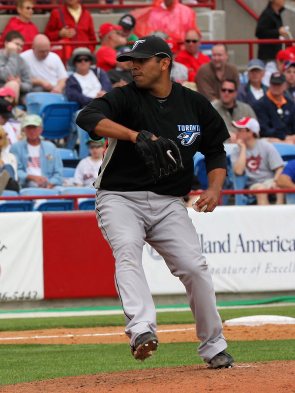 Ricky Romero, March 23, 2009, Sarasota, Florida. 21:26, 8 April 2009 . . BubbaFan . . 600×800 (96 KB)